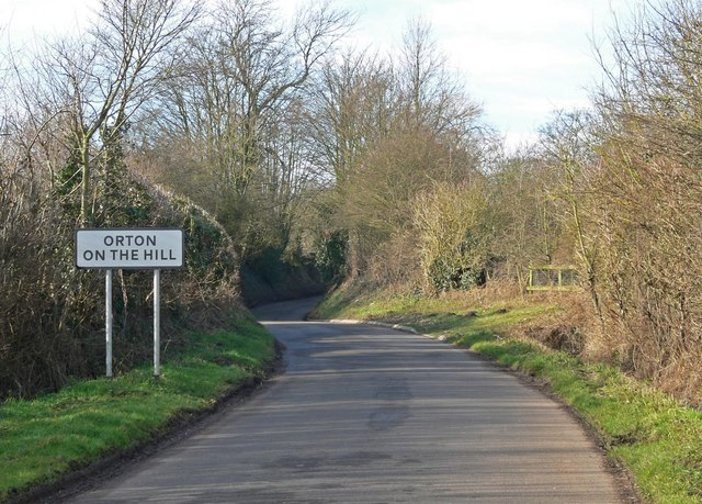 Approaching Orton on the Hill Along Sheepy Lane.